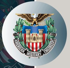 American Military Engineers emblem